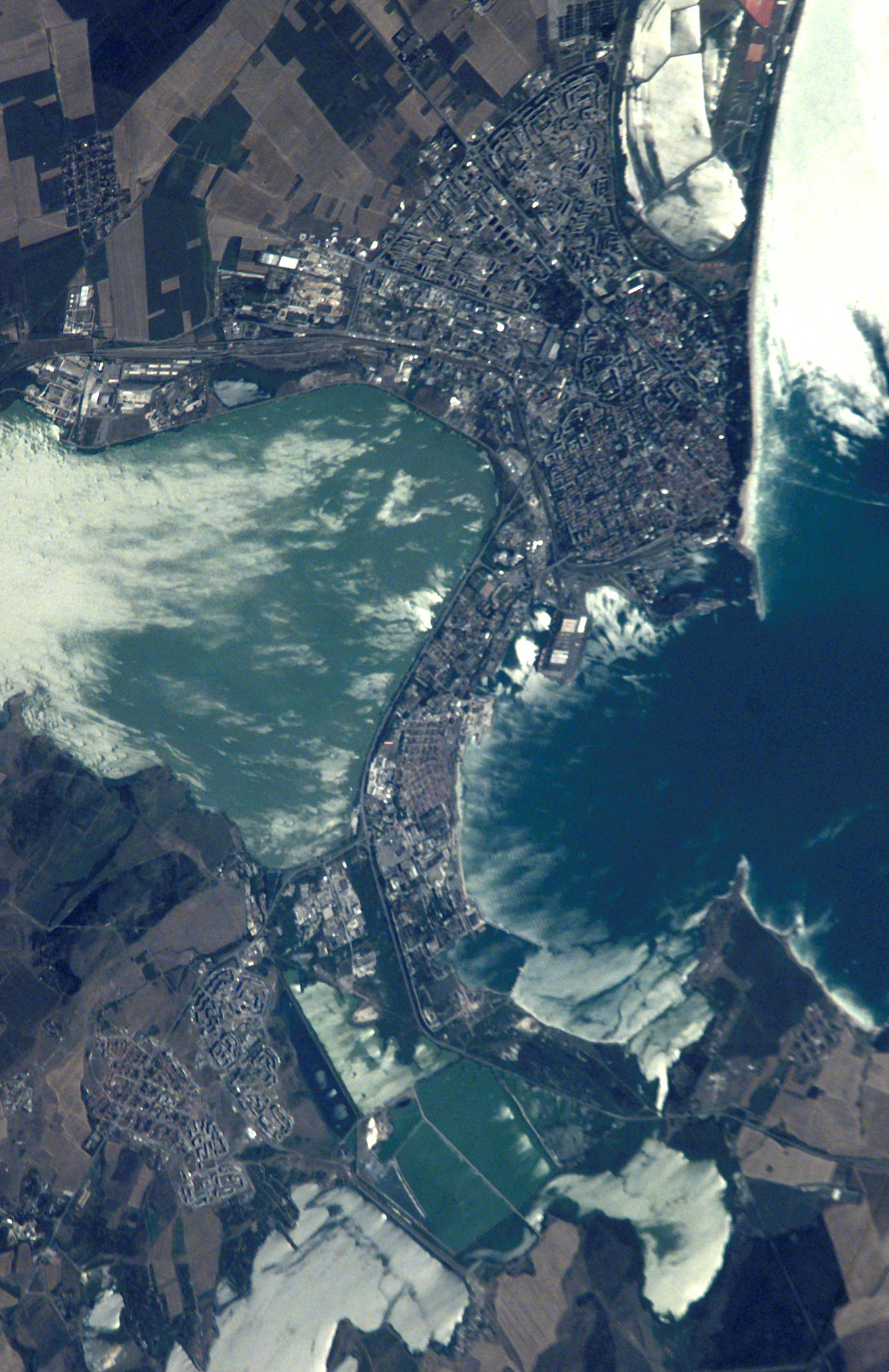 Burgas as seen from a NASA's space ship.